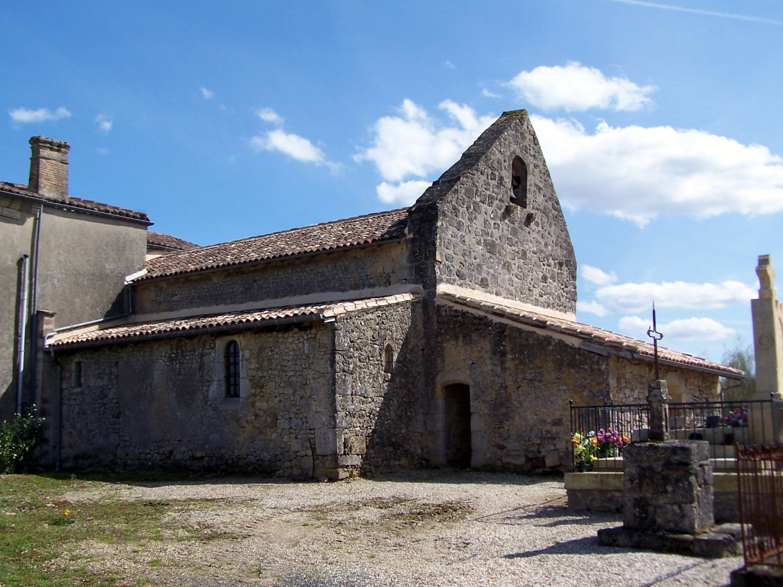 Chapel of Montpezat in Mourens (Gironde, France)